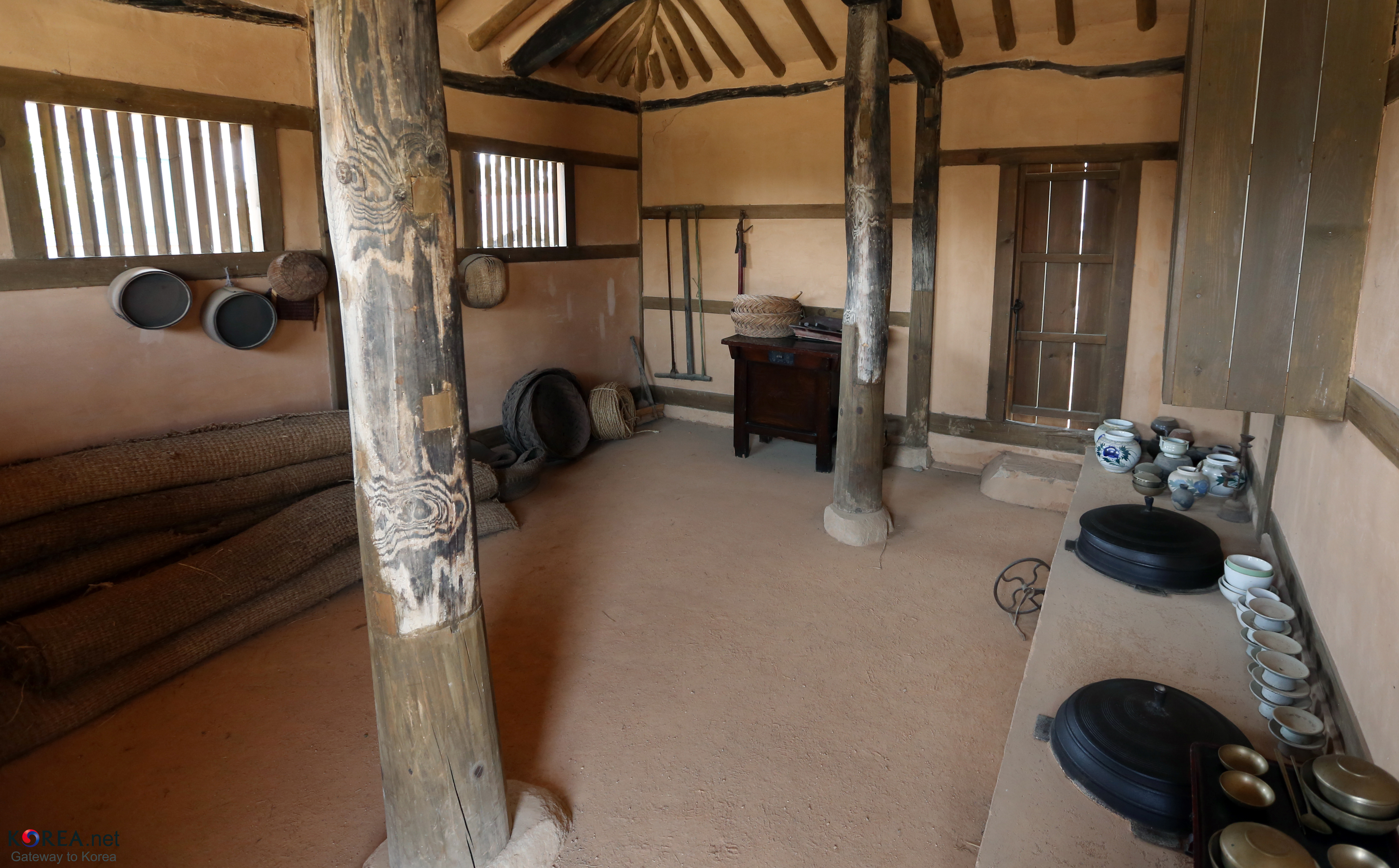 Shrine of Sinri Saint Bishop Daveluy Residence May 13, 2014 Sin-ri, Hanpdeok-eup, Dangjin-si, Chungcheongnam-do Ministry of Culture, Sports and Tourism Korean Culture and Information Service ( Official Photographer: Jeon Han 신리성지 다블뤼 주교관 2014-05-13 충청남도 당진시 합덕읍 신리 문화체육관광부 해외문화홍보원 코리아넷 전한